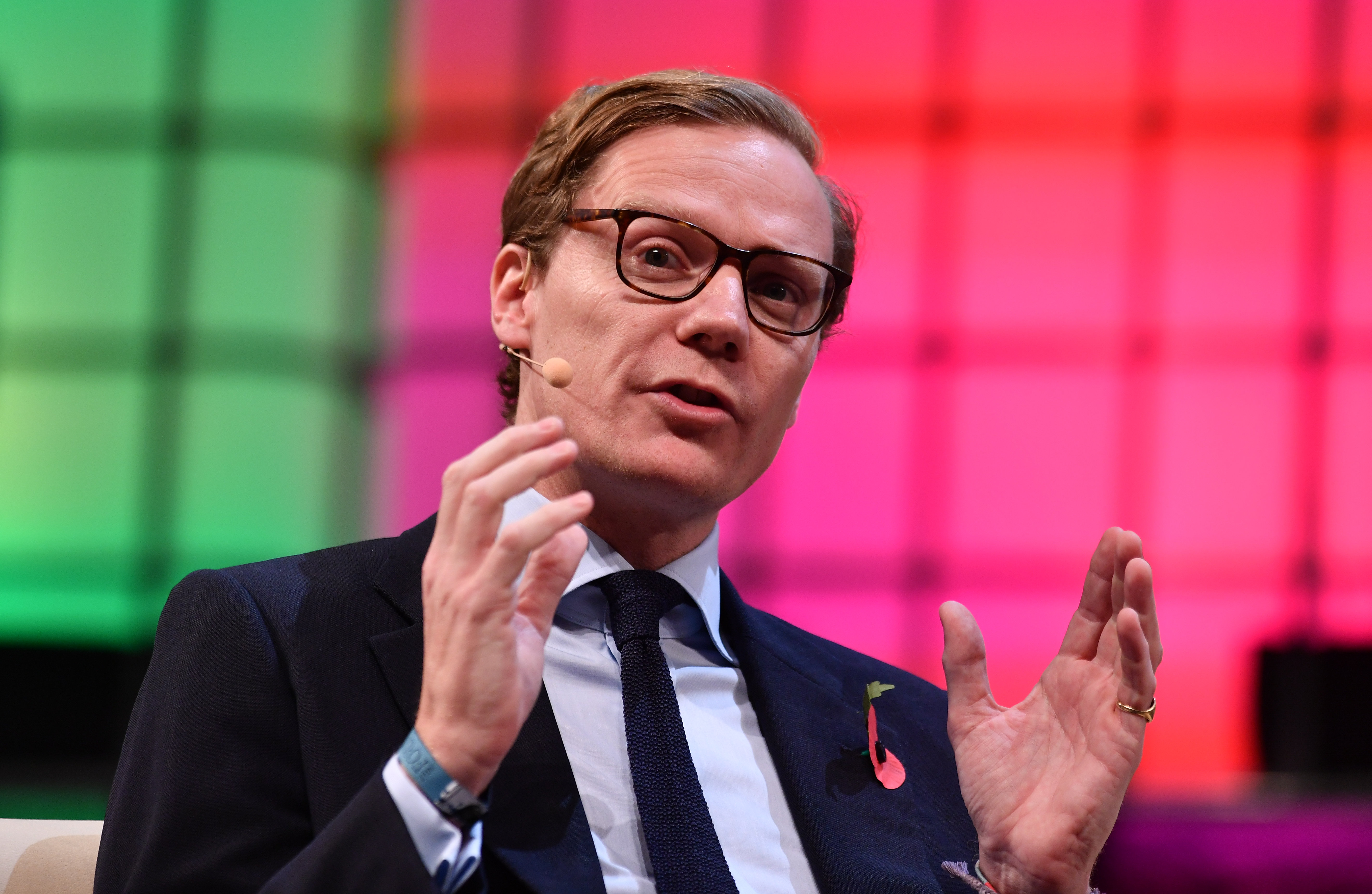 9 November 2017; Alexander Nix, CEO, Cambridge Analytica, on Centre Stage during day three of Web Summit 2017 at Altice Arena in Lisbon. Photo by Sam Barnes/Web Summit via Sportsfile